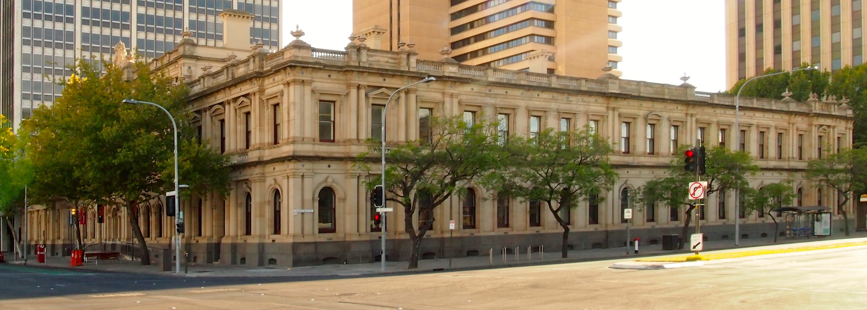 Torrens Building, Victoria Square / Wakefield St, Adelaide, South Australia. This is a cropped version of the source image.